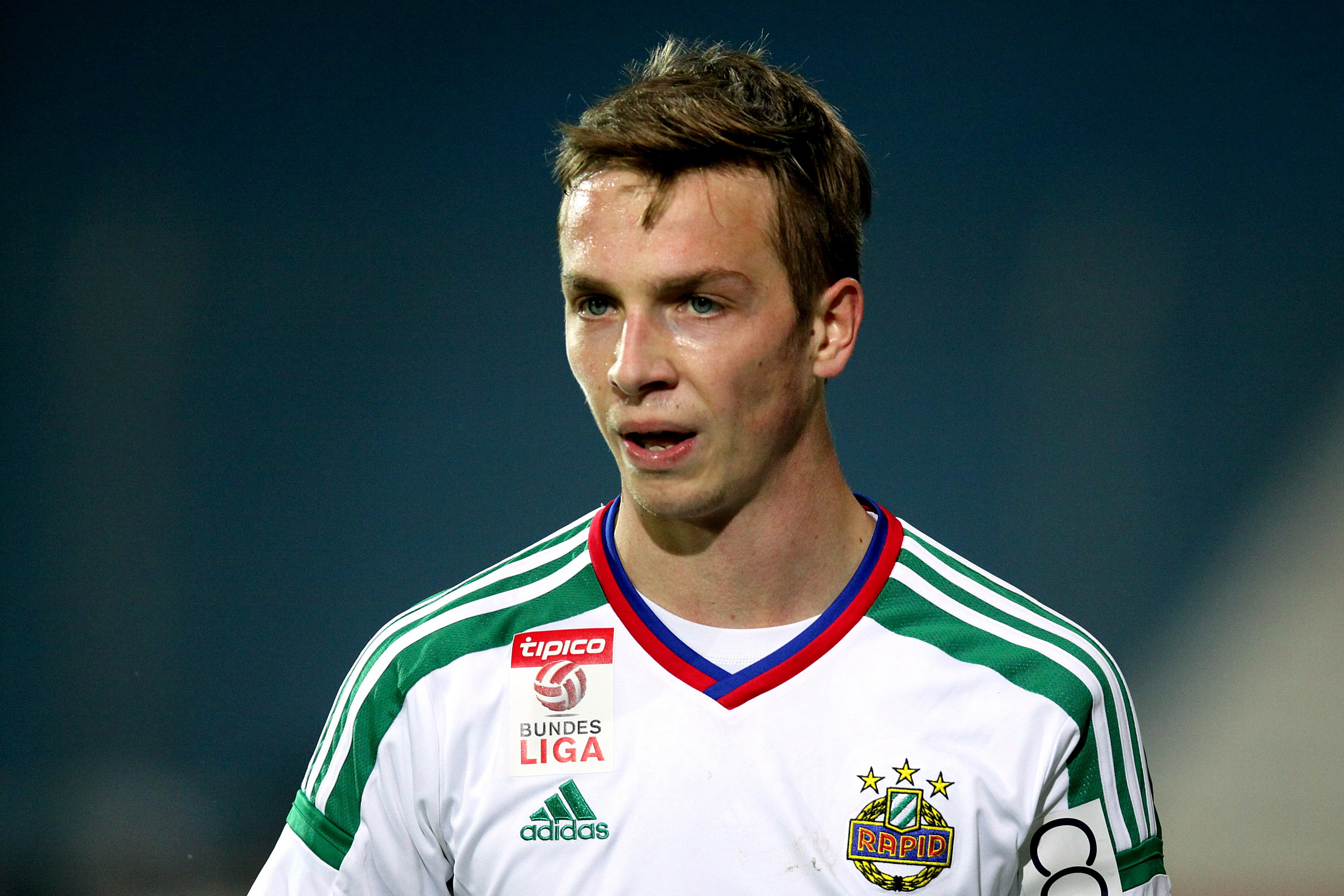 Match of the Austrian Football Bundesliga – FC Admira Wacker Mödling (red shirts) vs. SK Rapid Wien (white shirts) 2-1 (0-1) on 2015-12-02 in Bundesstadion Sudstadt – The photo shows Philipp Schobesberger.